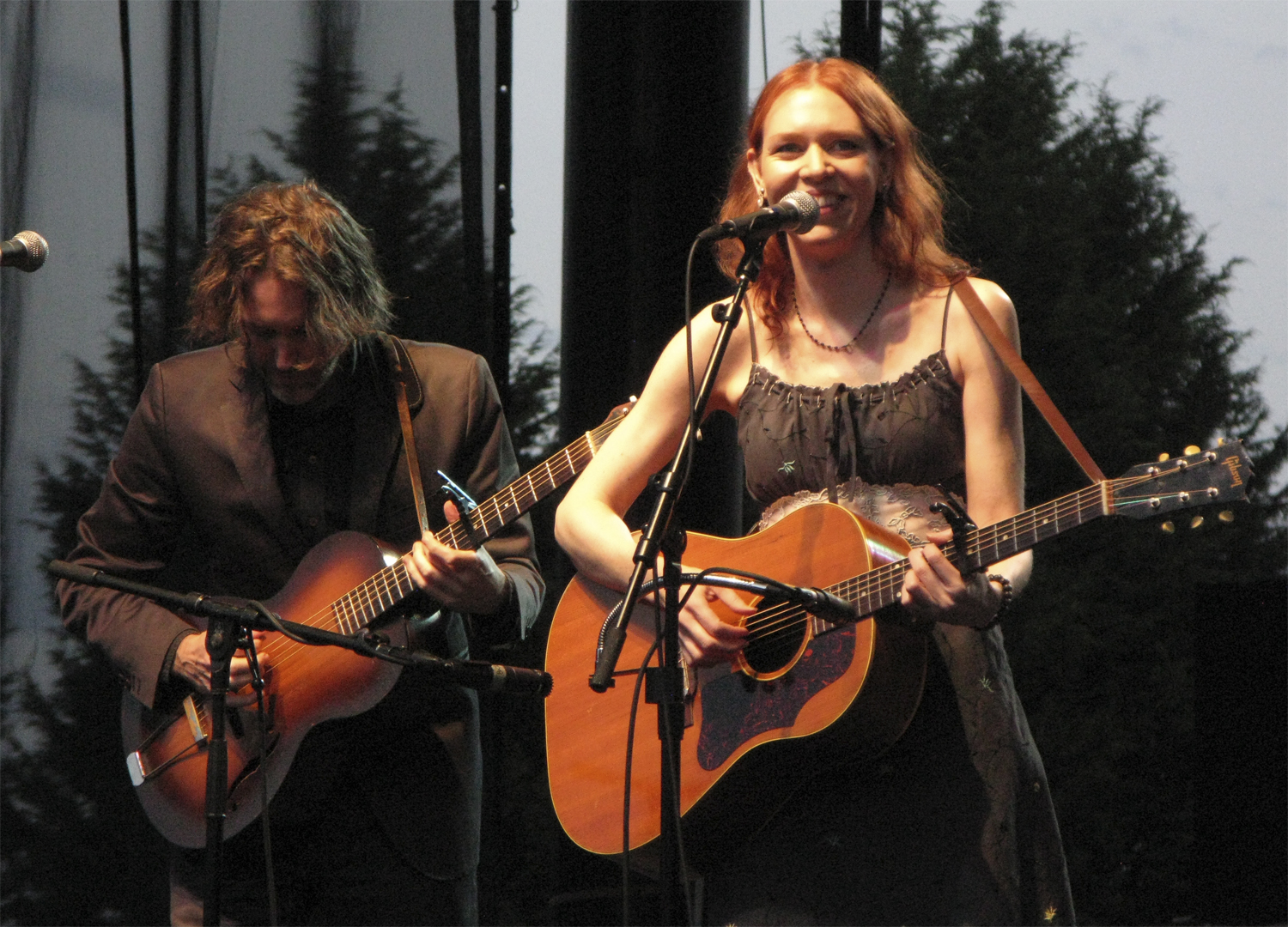 Dave Rawlings and Gillian Welch, Marymoor Park, 11 July 2009